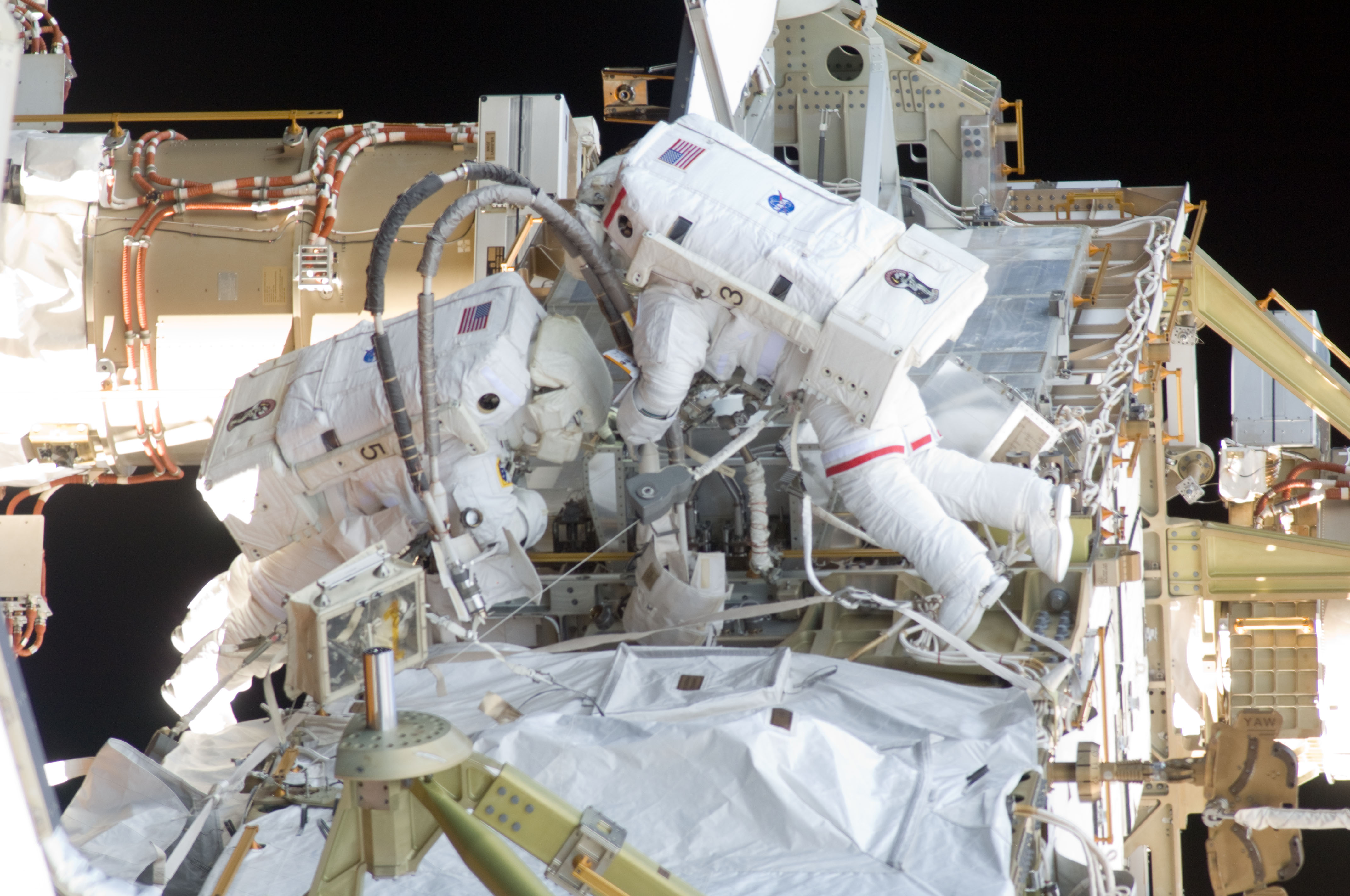 NASA astronaut Sunita Williams (right), Expedition 33 commander; and Japan Aerospace Exploration Agency astronaut Aki Hoshide, flight engineer, participate in a session of extravehicular activity (EVA) outside the International Space Station on Nov. 1, 2012. During the six-hour, 38-minute spacewalk, Williams and Hoshide ventured outside the orbital outpost to perform work and to support ground-based troubleshooting of an ammonia leak.